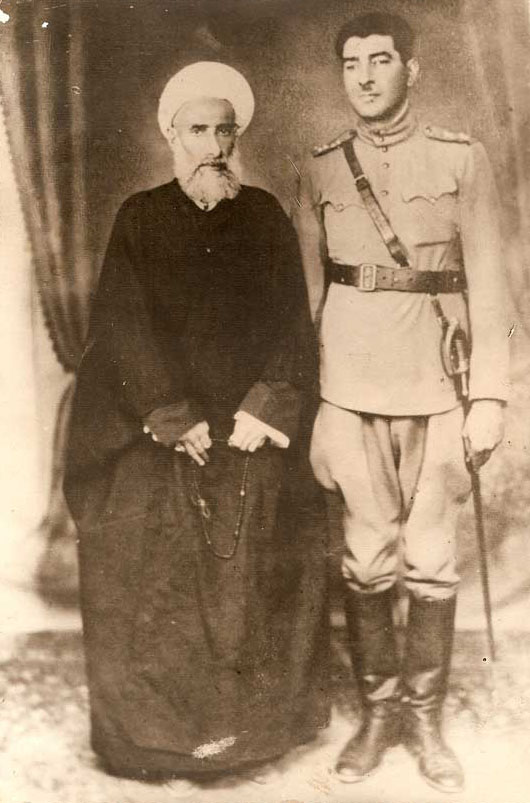 Soltan Ahmad Akhgar and his brother Ayatollah Mirza Abolghasem Farsio